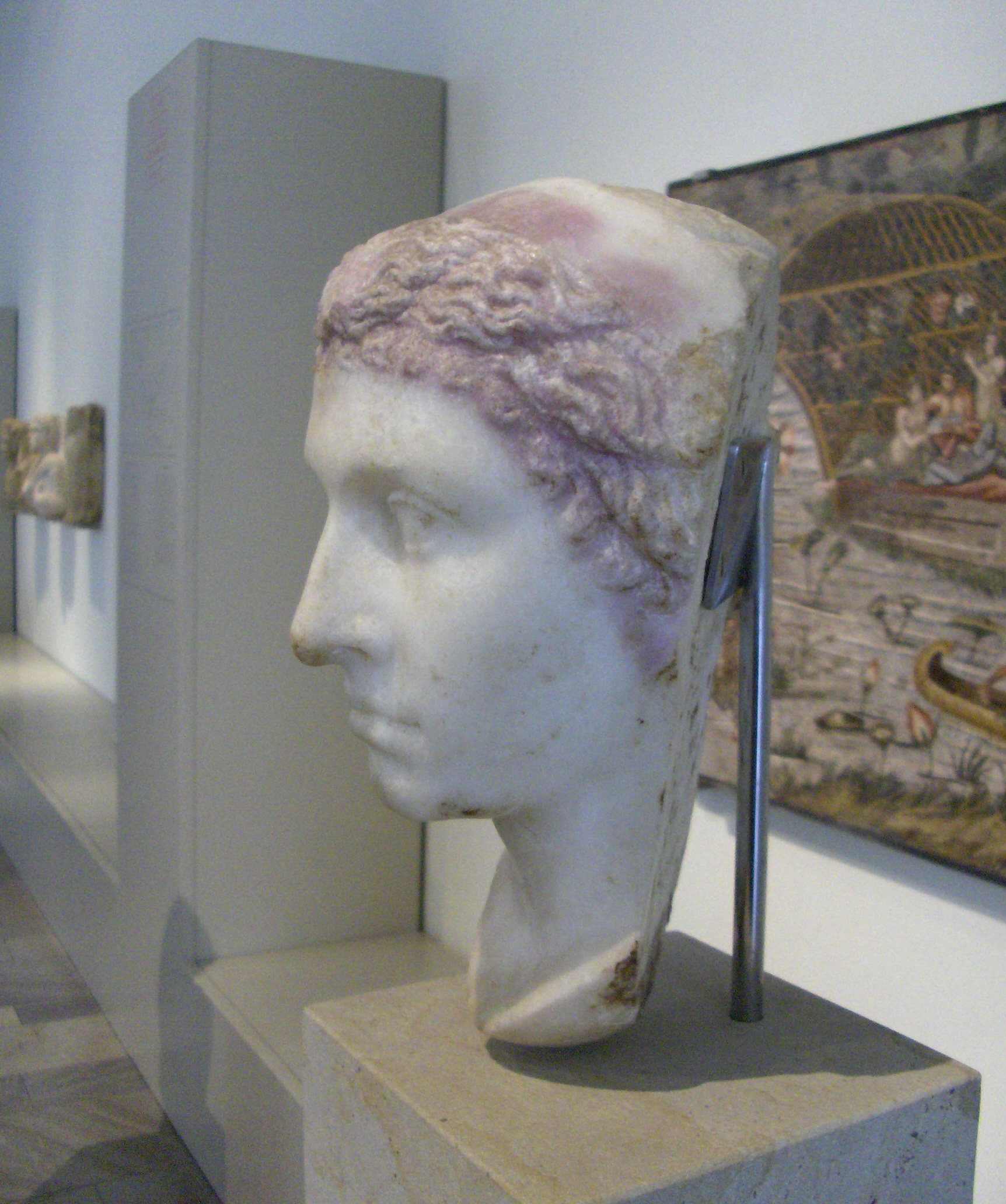 Kleopatra VII. von Ägypten / Cleopatra VII of Egypt